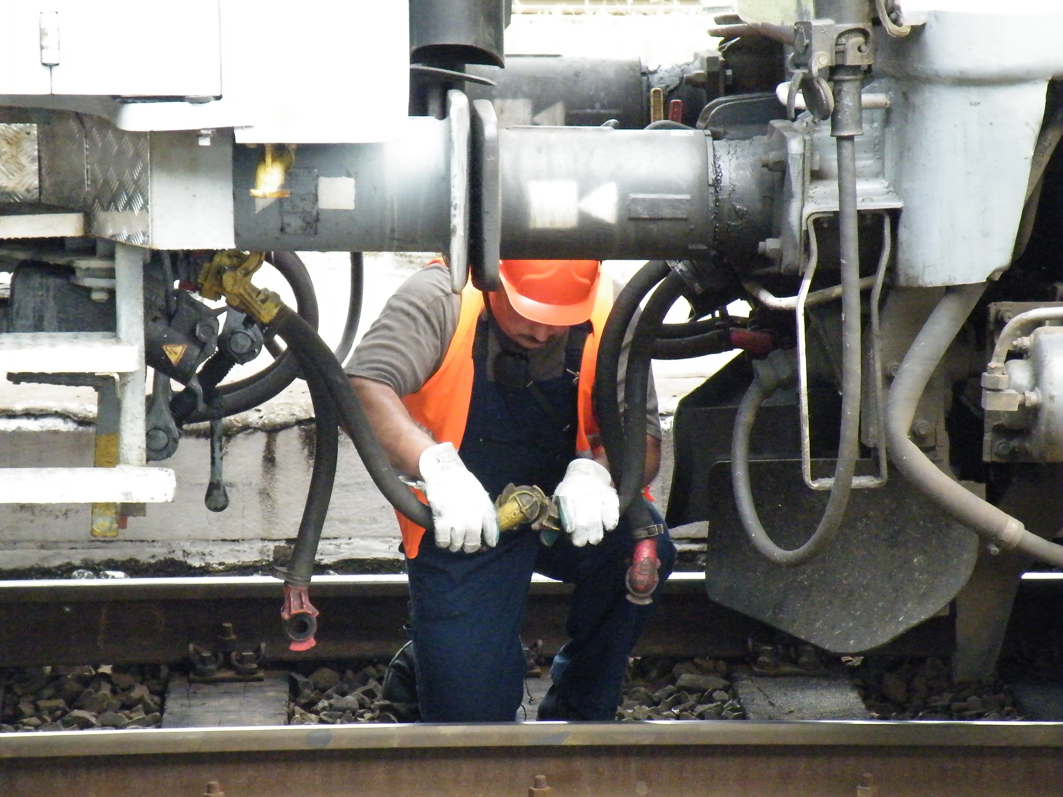 Connecting cars to locomotive